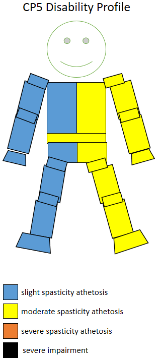 This image descriptions the spasticity athetosis level of a CP5 CP-ISRA classified sports person with cerebral palsy. It was created using information from .